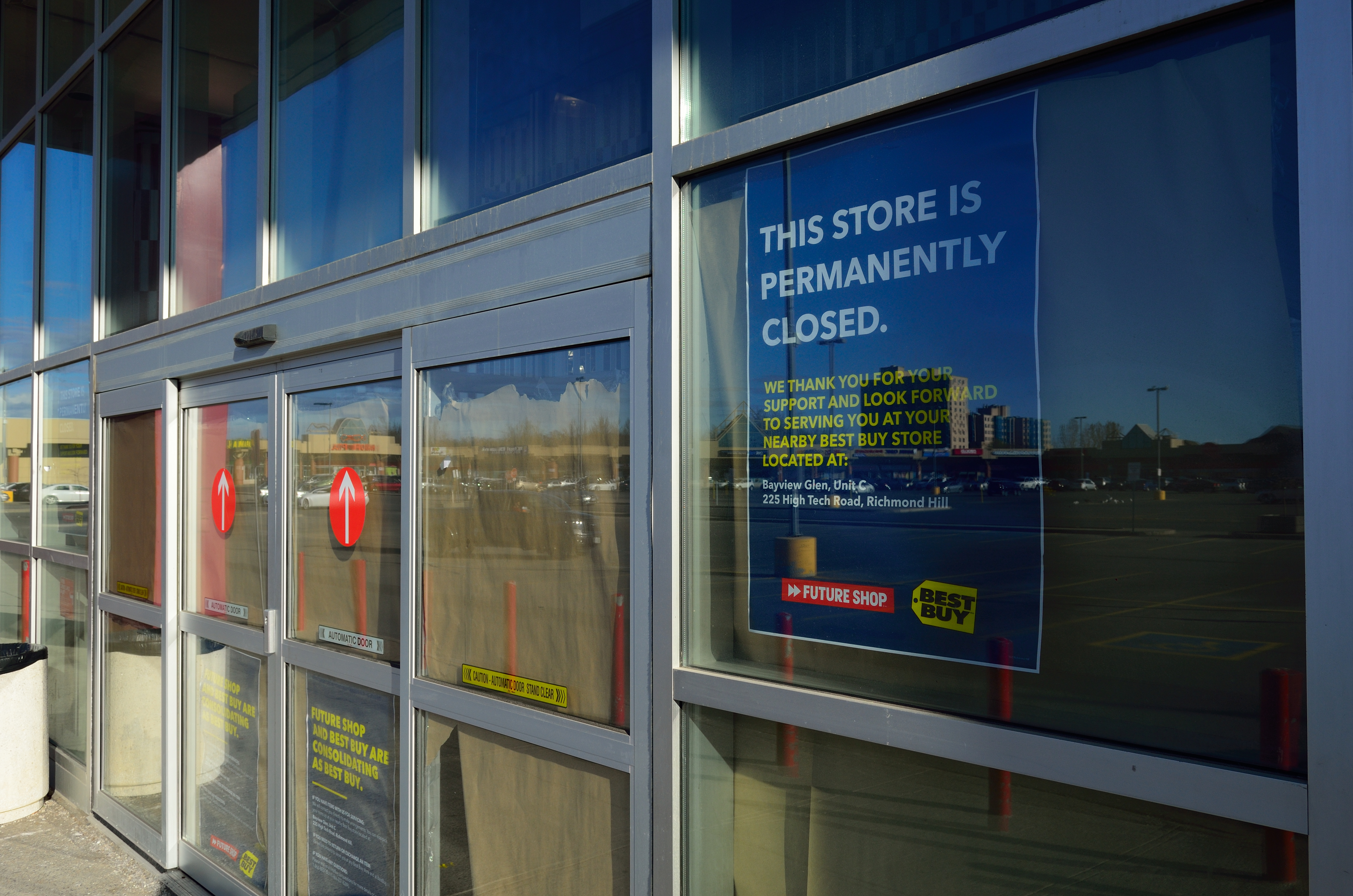 Future Shop, Richmond Hill, Ontario